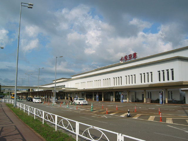 Komatsu Airport Terminal Building